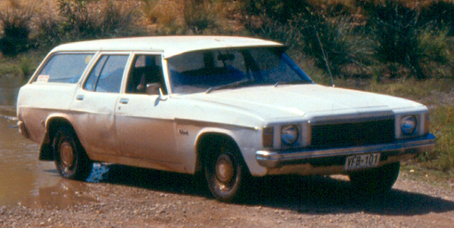 1974–1976 Holden HJ Belmont, photographed in Australia.